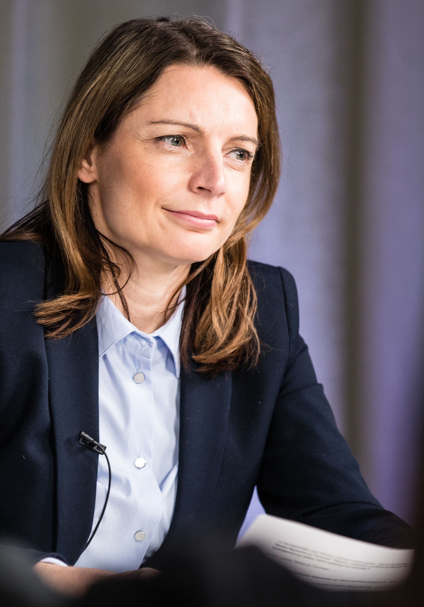 Veteraanipäivän keskustelu – millaista on elämä poikkeusajan nuorena. Veteraanit, sotilaspojat ja pikkulotat sekä tämänpäivän nuoret kohtasivat keskustelutilaisuudessa 27.4.